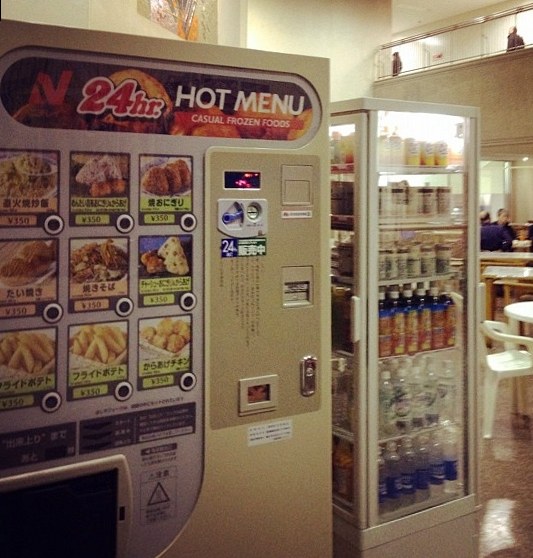 Nichirei food vending machine in Japan